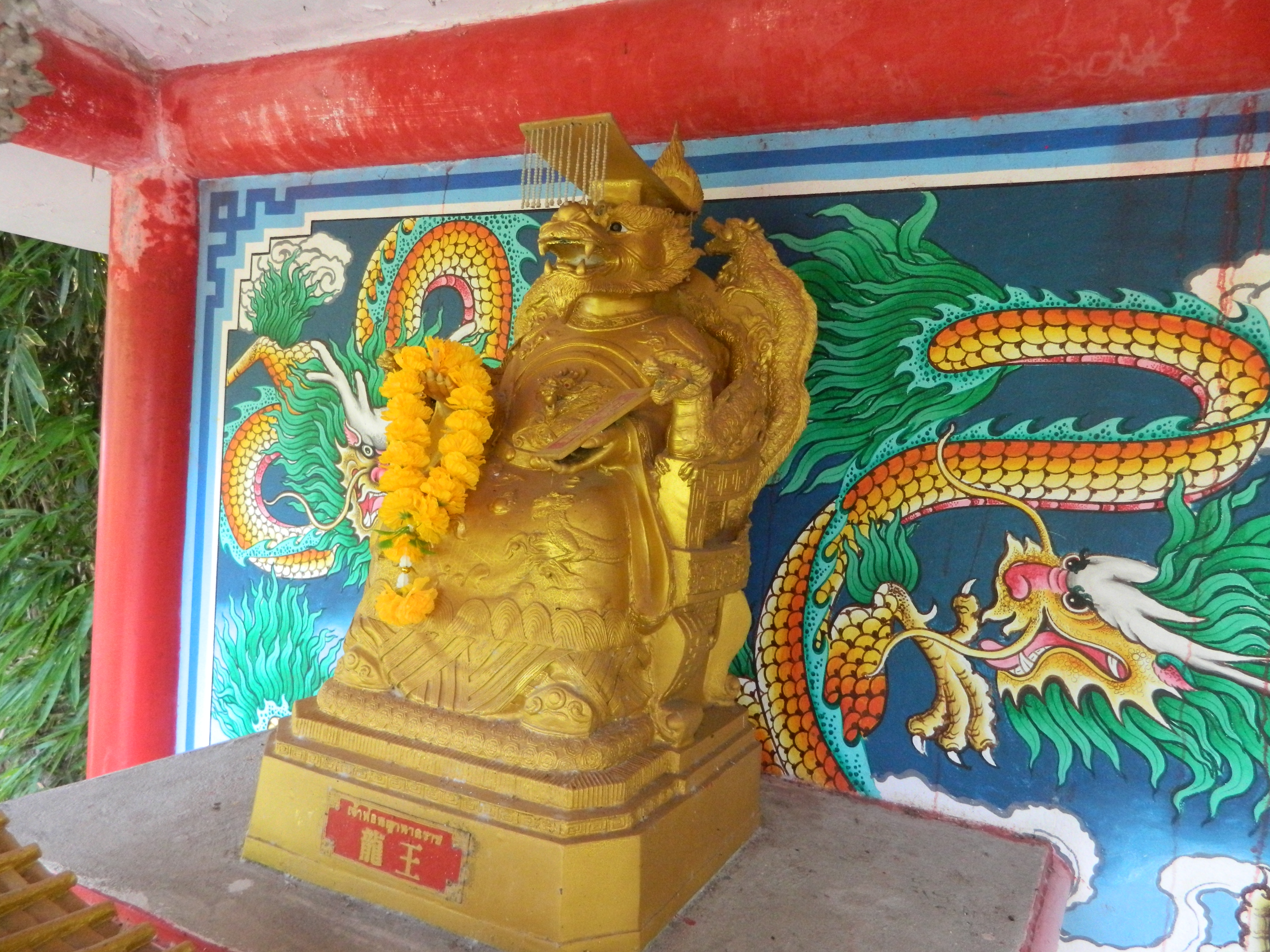 ChinessTemple